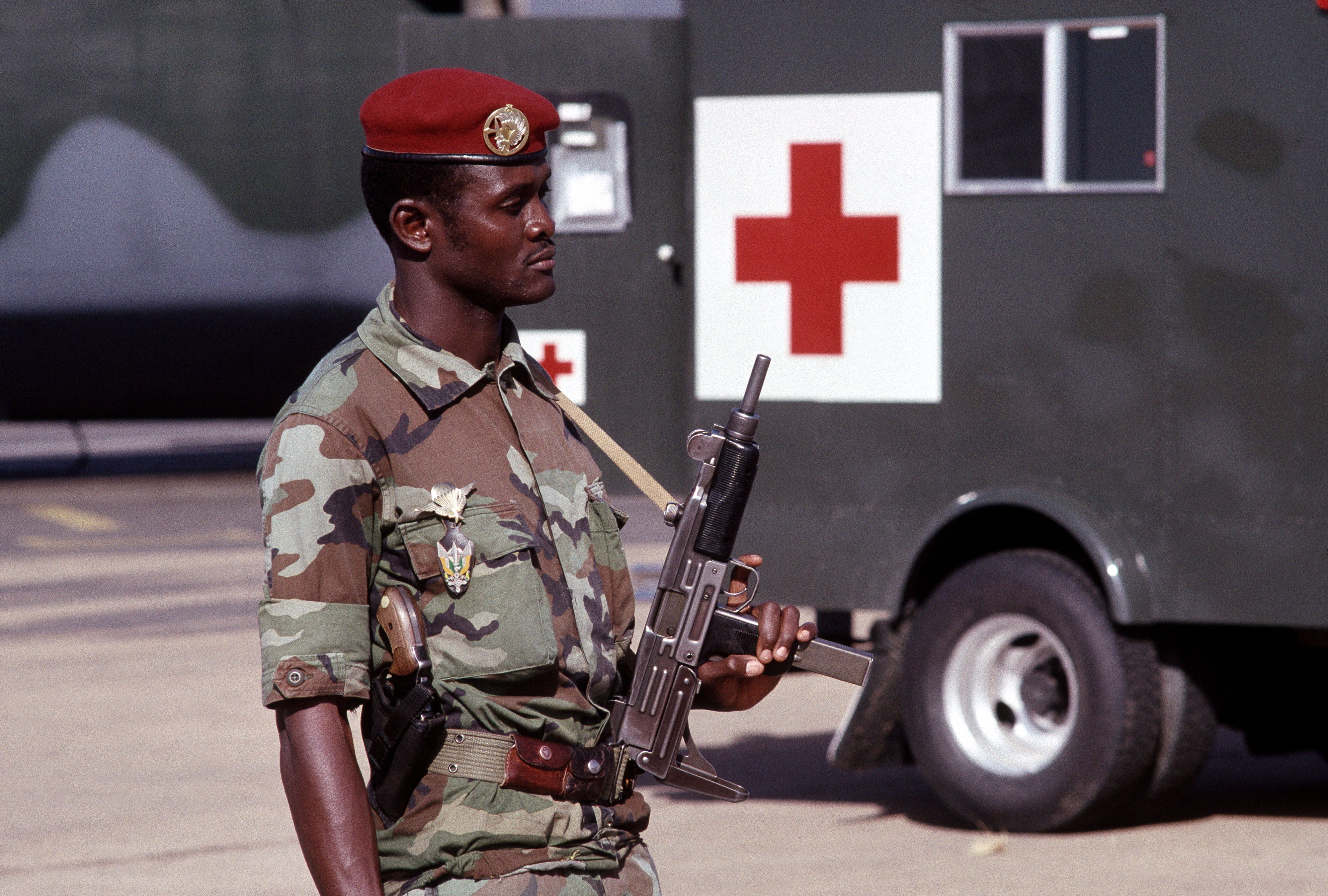 A member of the Paratroop Regiment, armed forces of Niger (FNIS) stands at attention next to a mobile medical unit, part of a humanitarian airlift from the United States.